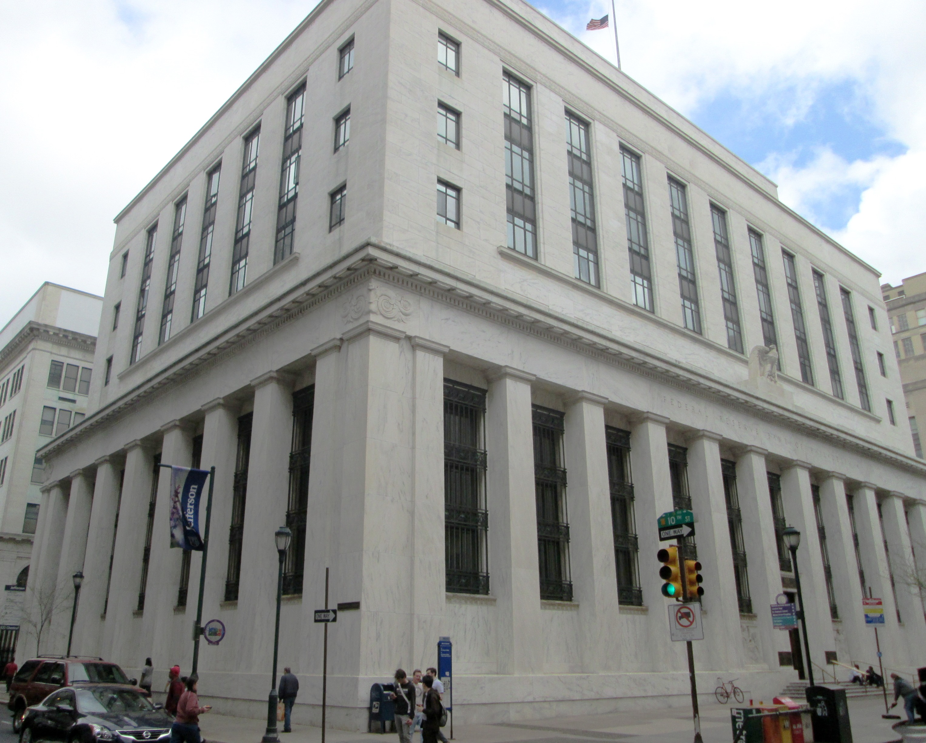 The Old Federal Reserve Bank of Philadelphia building at 925 Chestnut Street at S. 10th Streets in the Market East neighborhood of Center City, Philadelphia was built in 1931-35 and was designed by Paul Philippe Cret in the Neoclassical style influenced by Beaux-Arts. It features sculptures by Alfred Boitteau. A formal garden, designed by Cret, was added in 1941, and a recessed s7th story was added by Harbeson, Hough, Livingston and Larson, Cret's suscessor firm, in 1952-53. The building is now part of the Jefferson University Hospital's Center City campus. The building was added to the National Register of Historic Places on June 28, 1979.